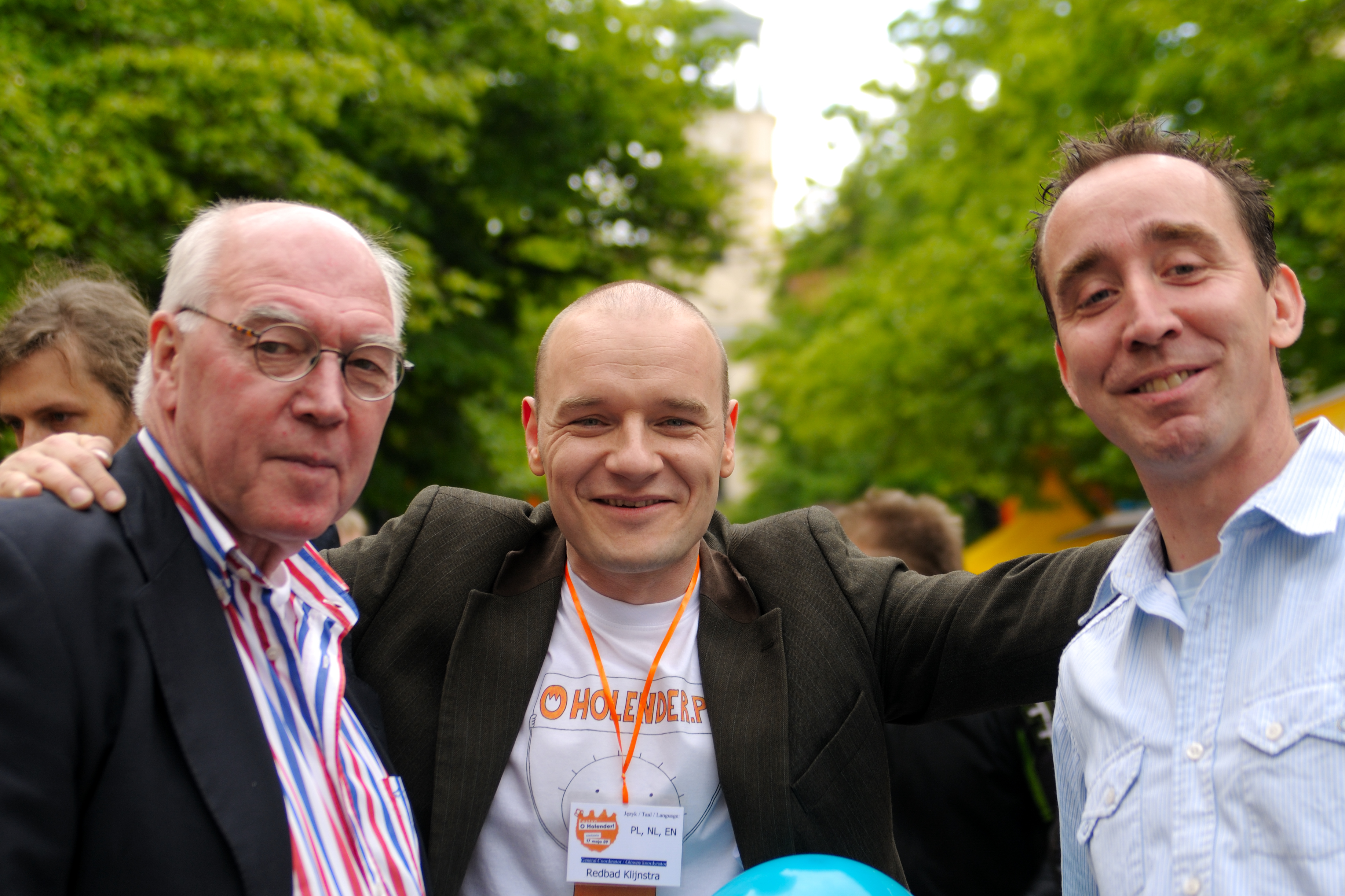 Redbad Klijnstra (in the middle), the man behind the whole thing.